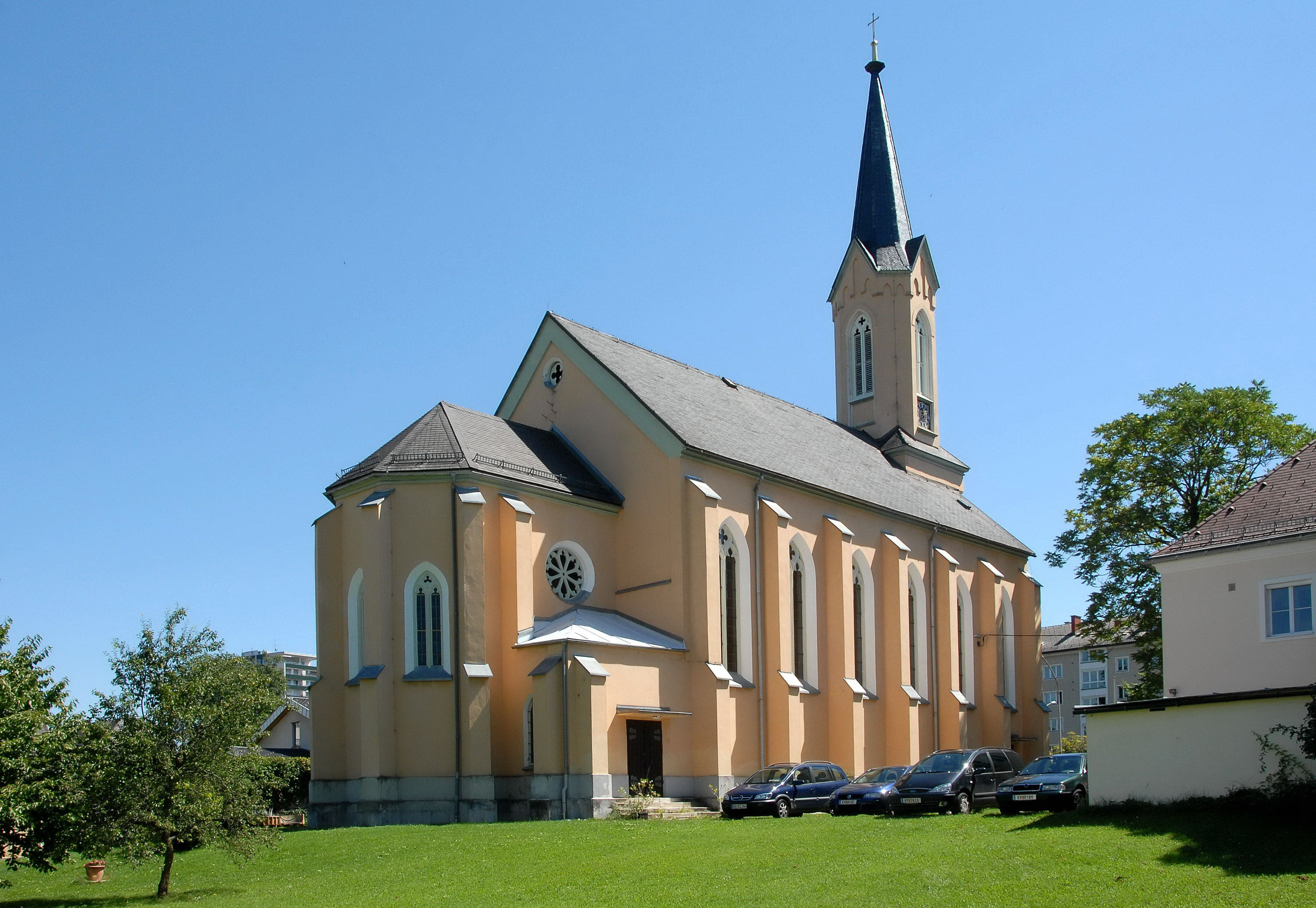 Protestant "Johannes" church in Gothic revival style near the Lend port on Martin Luther Platz #1, Villacher Vorstadt, Klagenfurt, Carinthia, Austria, EU